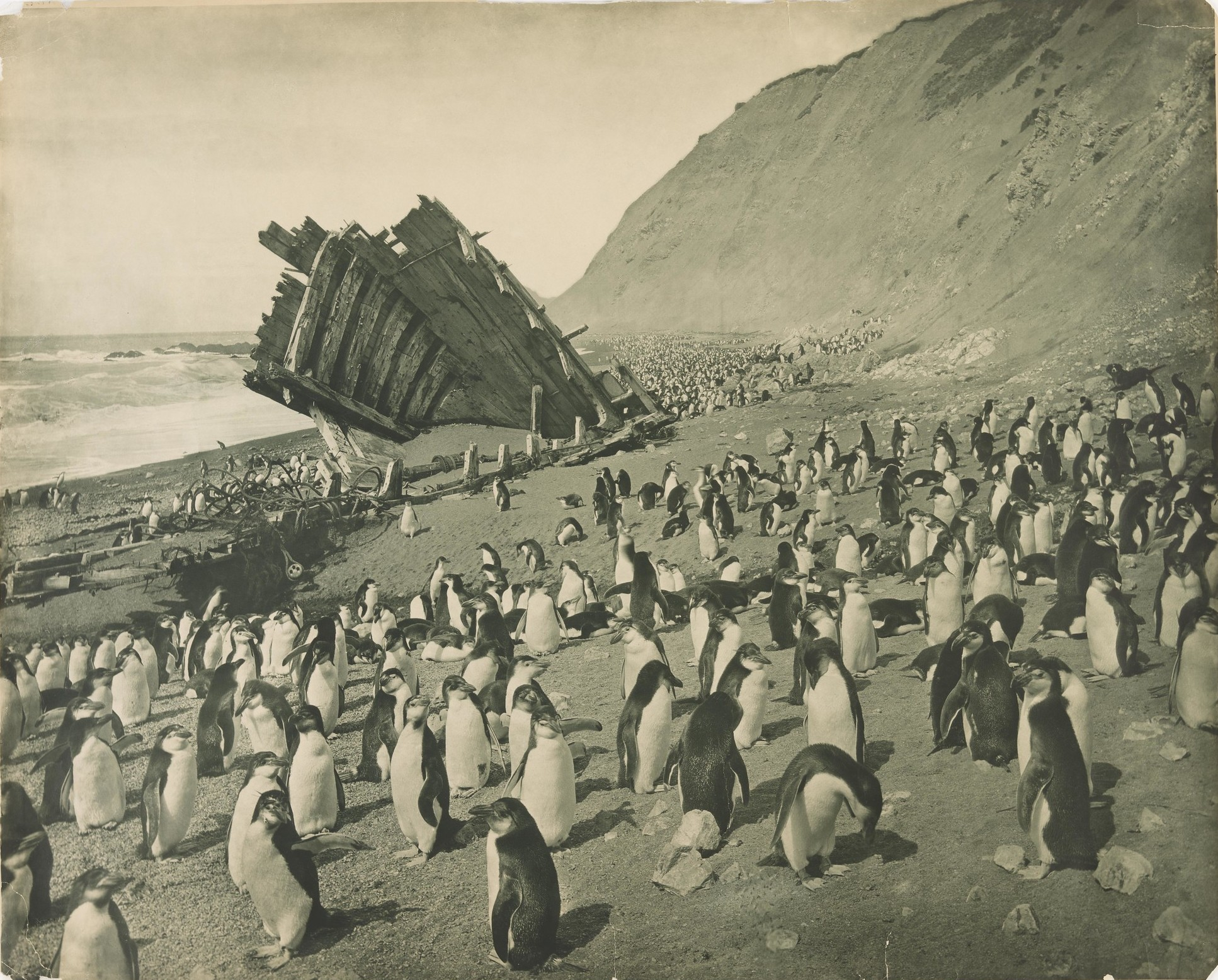 Penguins on the beach and the remains of the wreck of "The Gratitude", Nuggets Beach, Macquarie Island, 1911 [or possibly 1913, when Frank Hurley returned to Macquarie Island], taken on from Australian Antarctic Expedition, vintage exhibition print made in 1915, photographer Frank Hurley, State Library of New South Wales, PXD 156